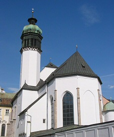 exterior of the Hofkirche in Innsbruck